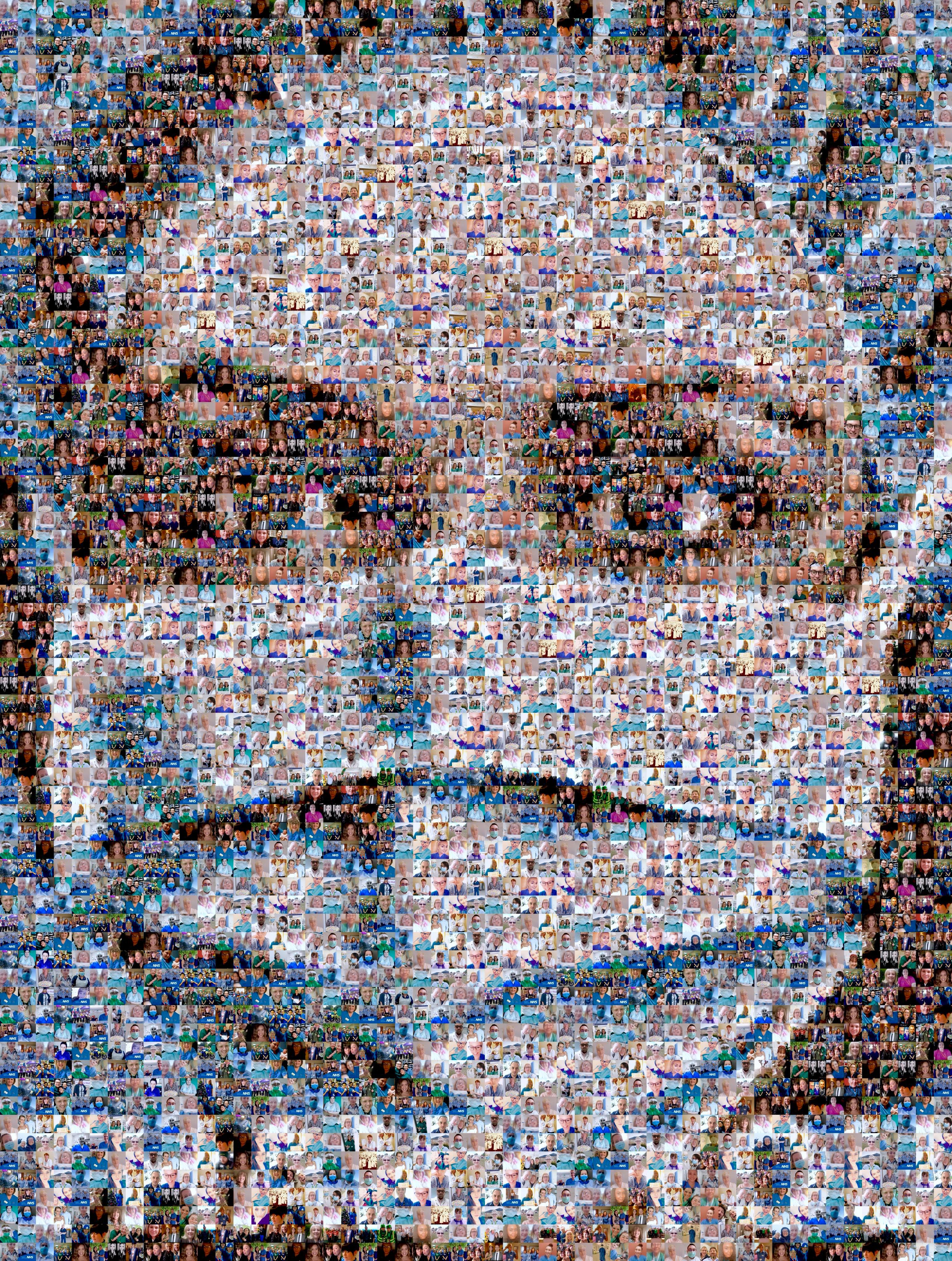 A digital collage created by portrait artist Nathan Wyburn of 200 NHS workers, created as a 'thank you' to the key workers during the 2019-20 coronavirus pandemic. Rights and clearance given to post by the artist himself under a Creative Commons licence. For use on Wyburn's Wikipedia page.